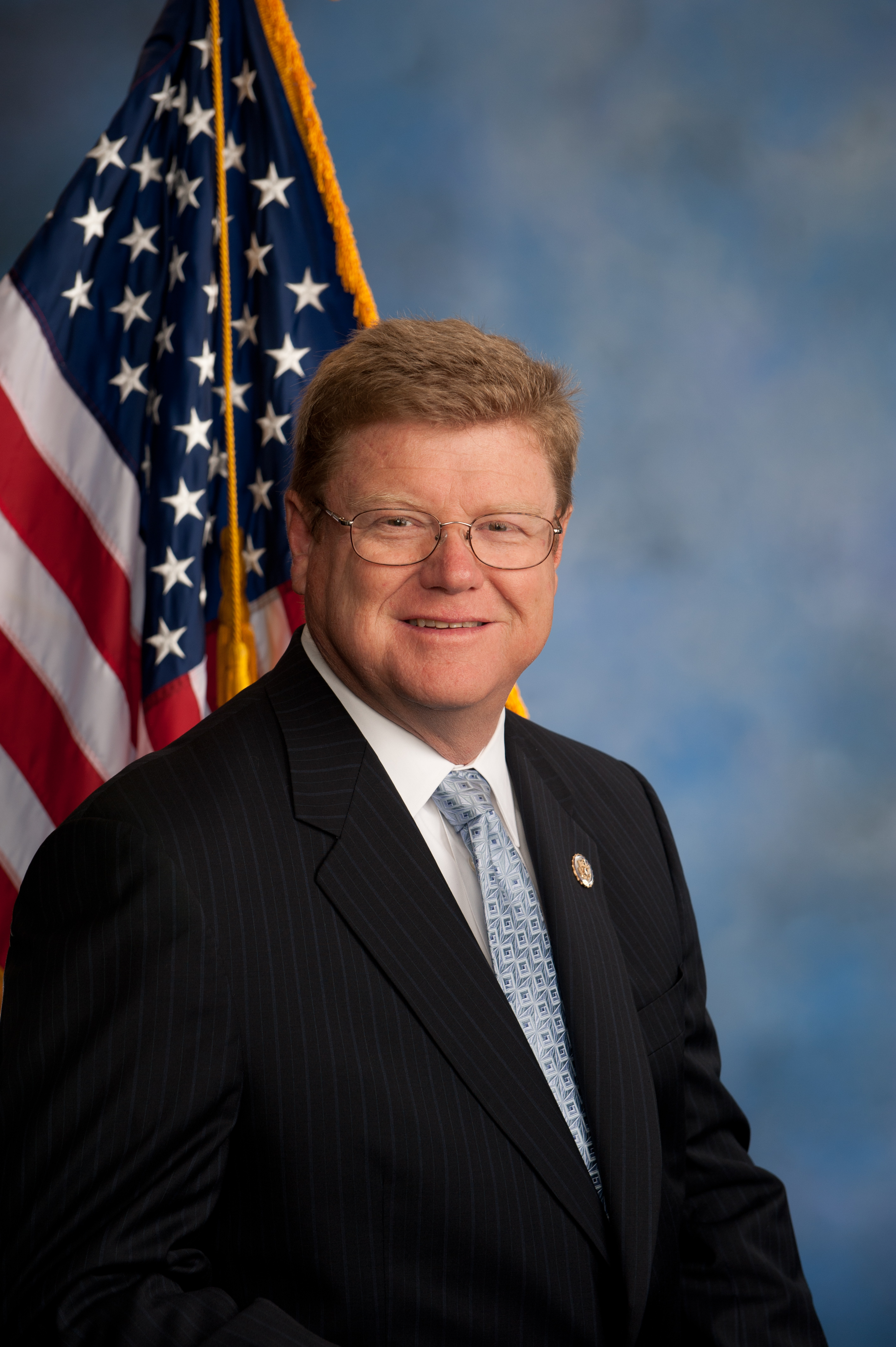 Mark Amodei, member of the United States House of Representatives.